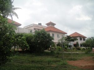 college